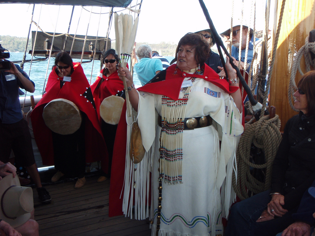 Grandmother Margaret Behan at event